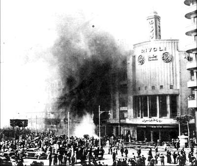 Rivoli Cinema Fire among The Grand Arson of Cairo, Egypt on January 1952.